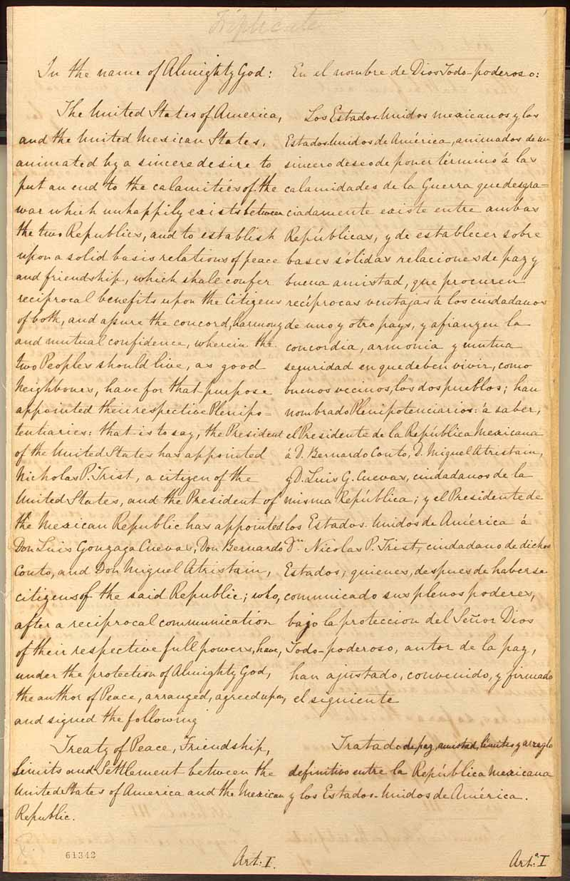 Original Treaty of Guadalupe Hidalgo, from the Library of Congress.